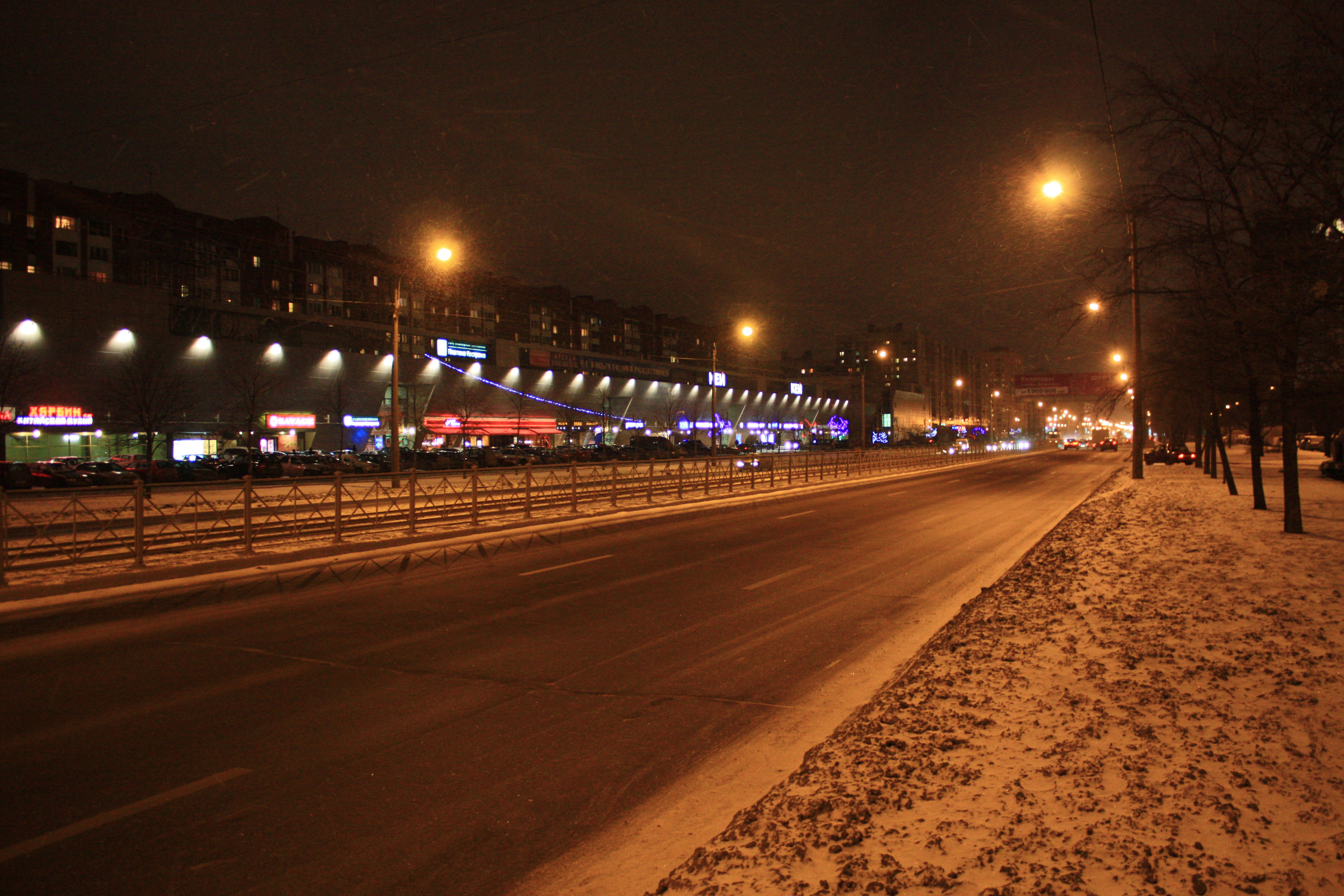 Prospect Engels, type in second direction.